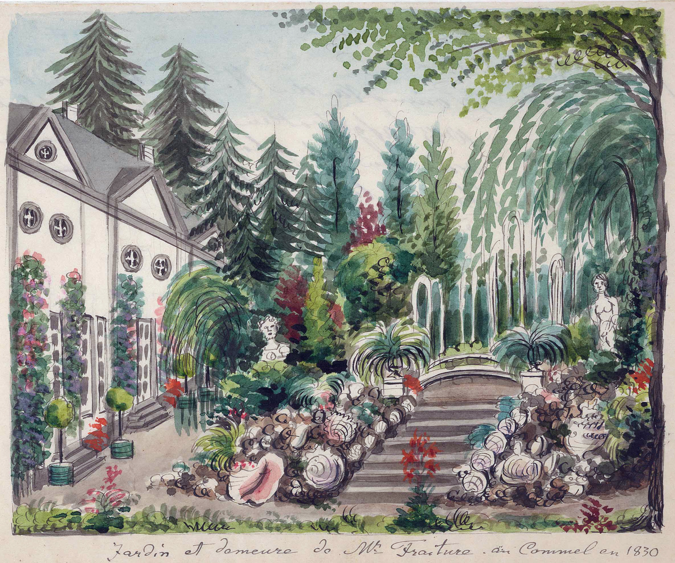 View of the house and garden of Mr. Fraiture in Calvariestraat (then Kommel) in Maastricht, Netherlands, as it was around 1830. The house was a former canon's house that was part of the Calvariënberg Monastery. Fraiture bought it after the dissolution of the monasteries in 1798. The house was largely demolished in 1845, so Van Gulpen drew in 1847 a situation that did no longer existed.